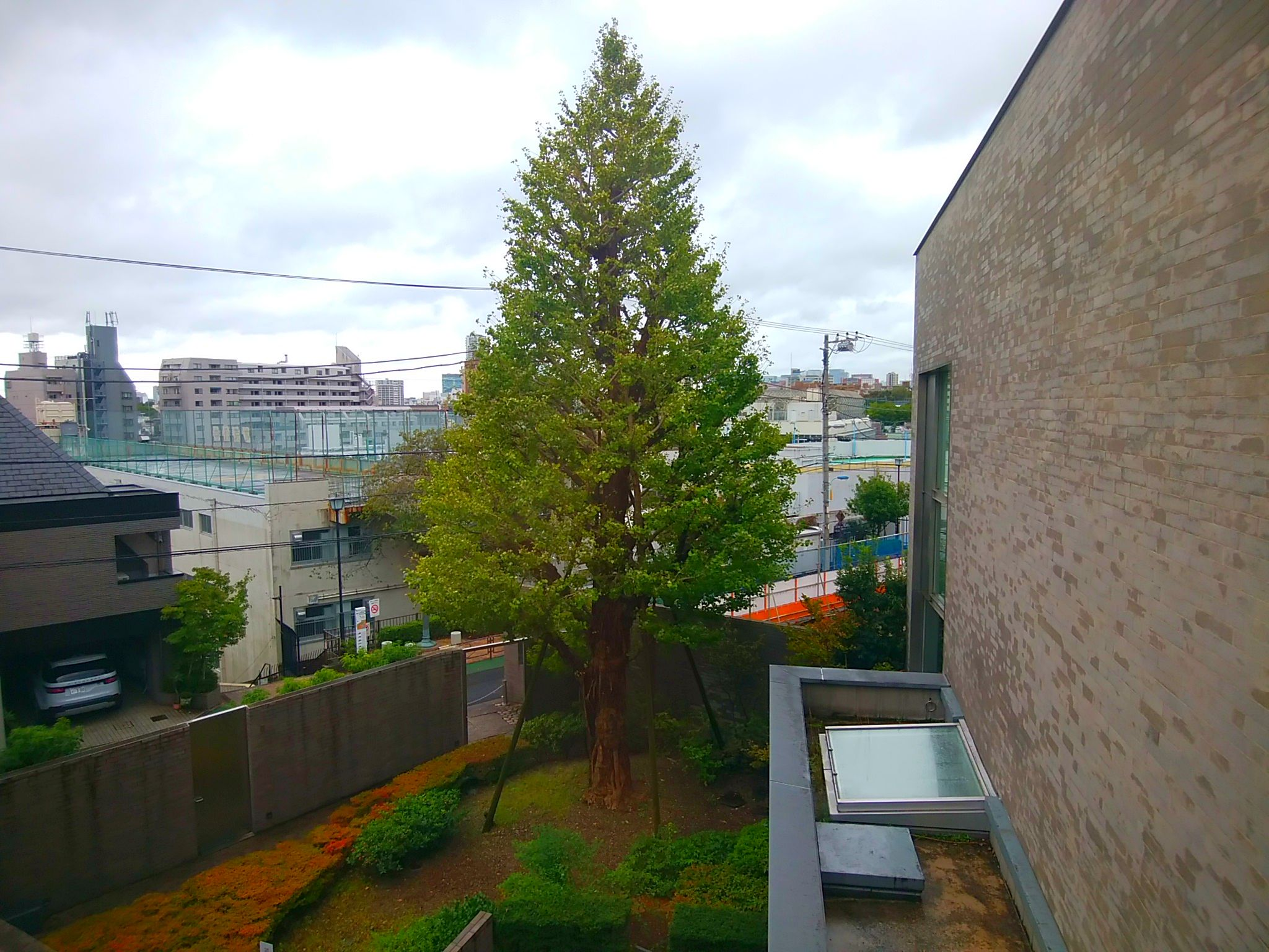 Great Ginkgo, Mori Ogai Memorial Museum (Sendagi, Bunkyo-ku, Tokyo)